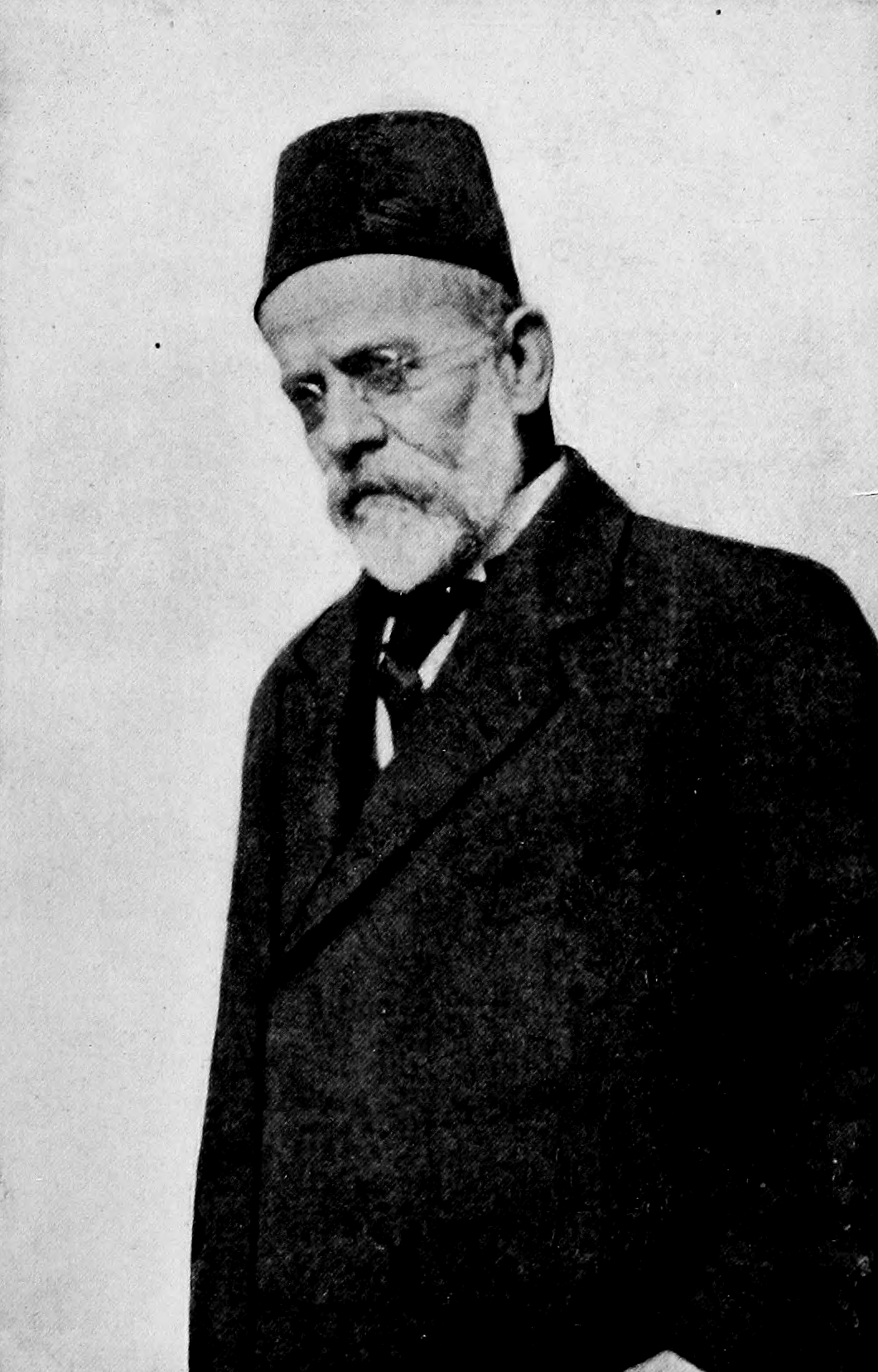 Bustani Efendi (Sulaiman al-Bustani)